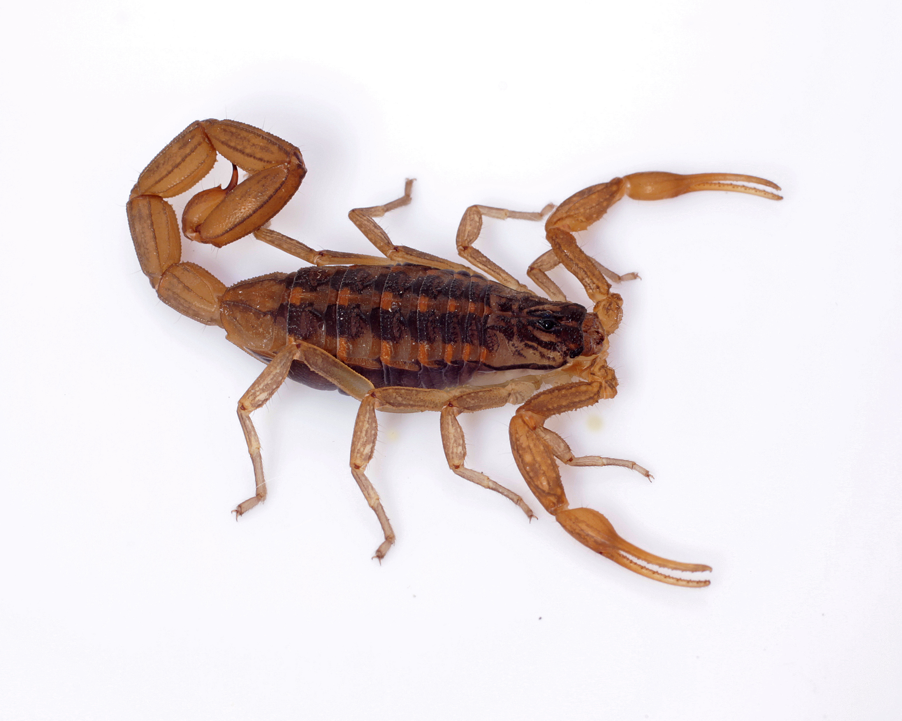 Centruroides infamatus, scorpion from Guanajuato, Mexico